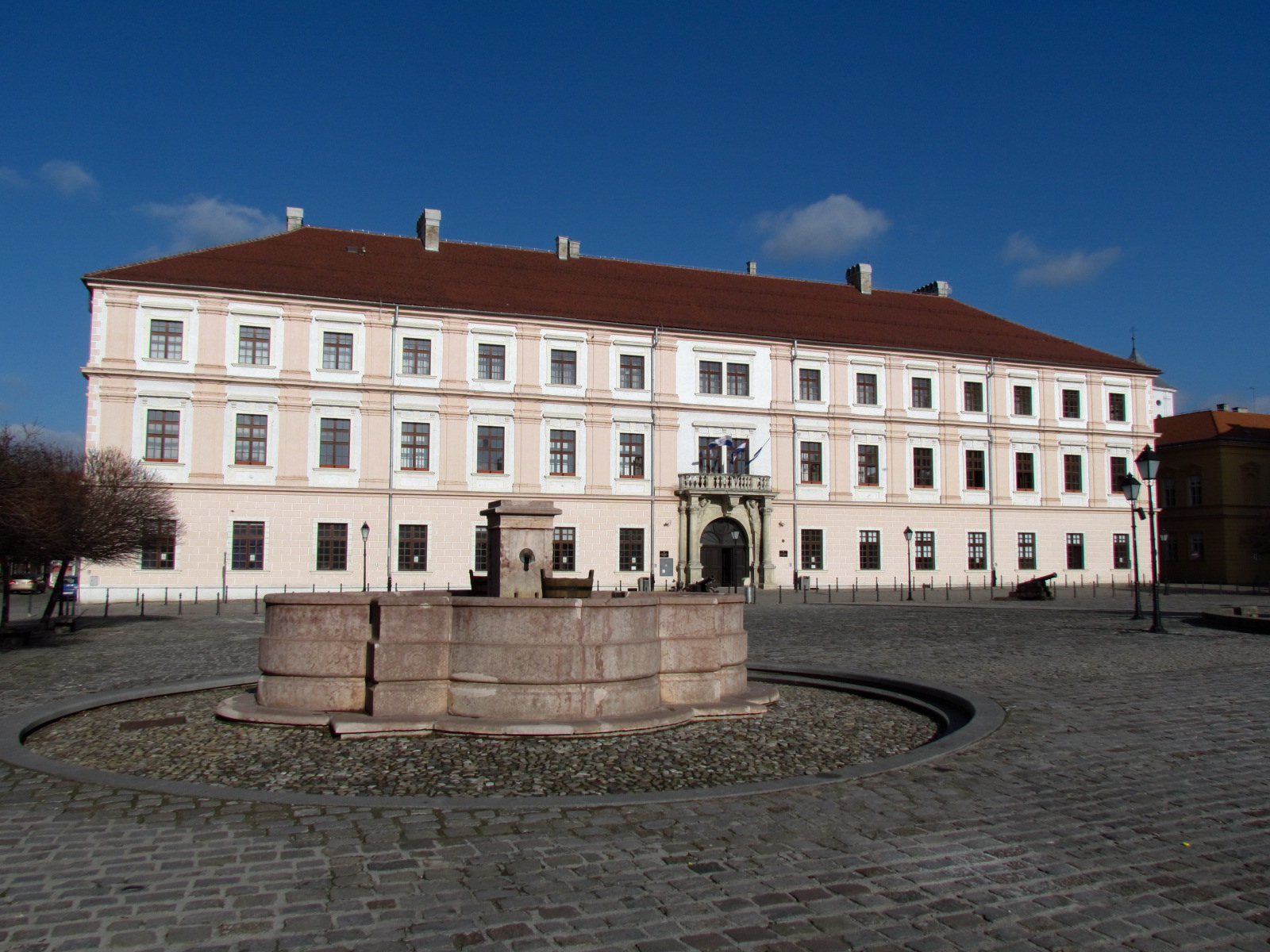 Palace of Slavonian general command